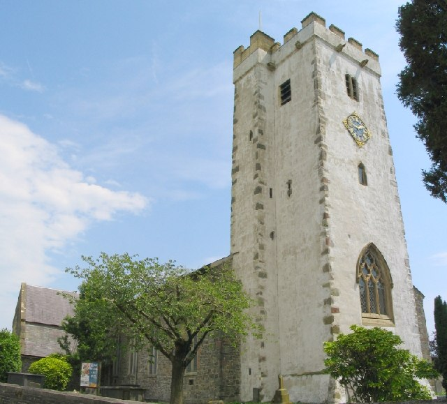 St Peter's Church, Carmarthen. This church is at the end of King Street, near the library. The unfinished look of the grey-white rendering on the clock tower is allegedly a restoration of the church's original condition.